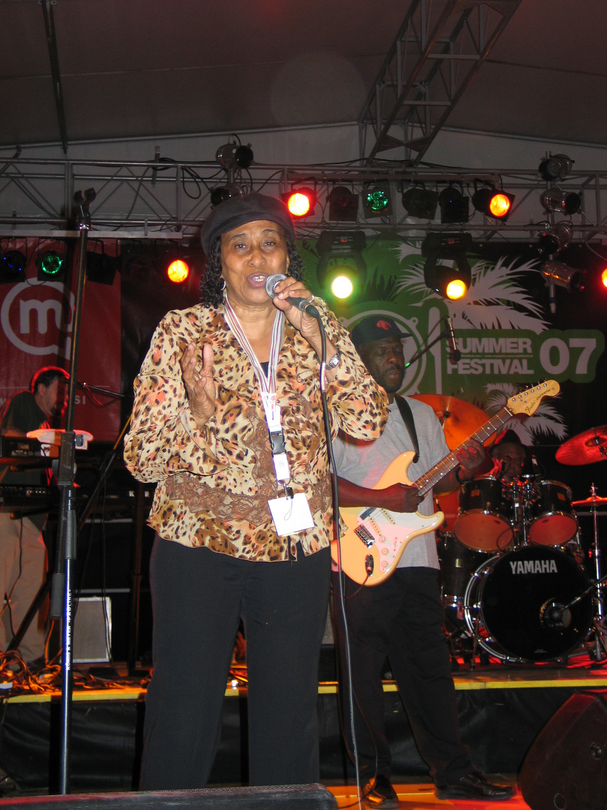 Doreen Shaffer of The Skatalites at Njoki Summer Festival, Ajdovščina, Slovenia. Also on the picture Ken Stewart on keyboards, Devon James on guitar, and Lloyd Knibb on drums.